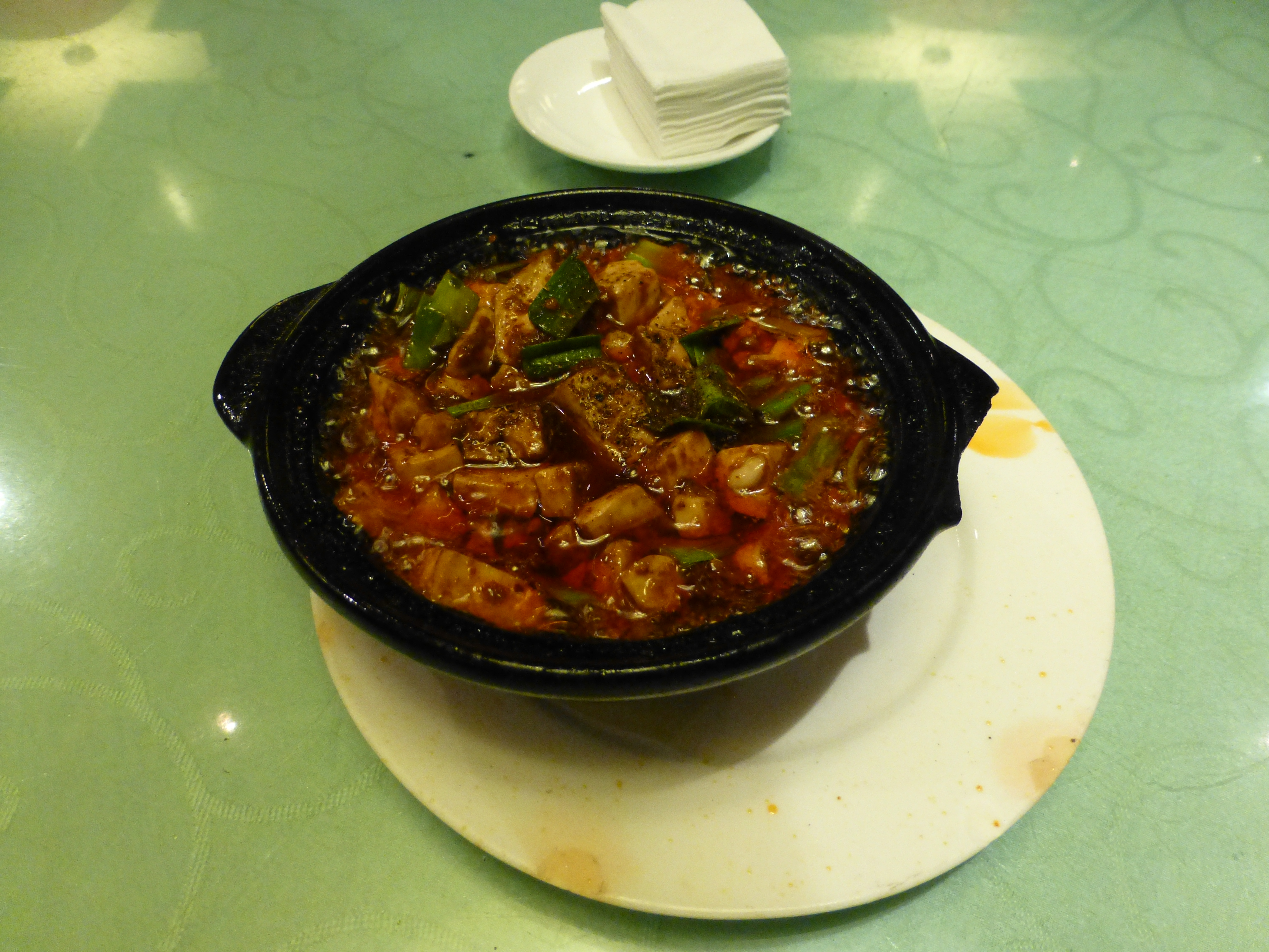 Mapo doufu by Chen Mapo Restaurant in Chengdu Sichuan.